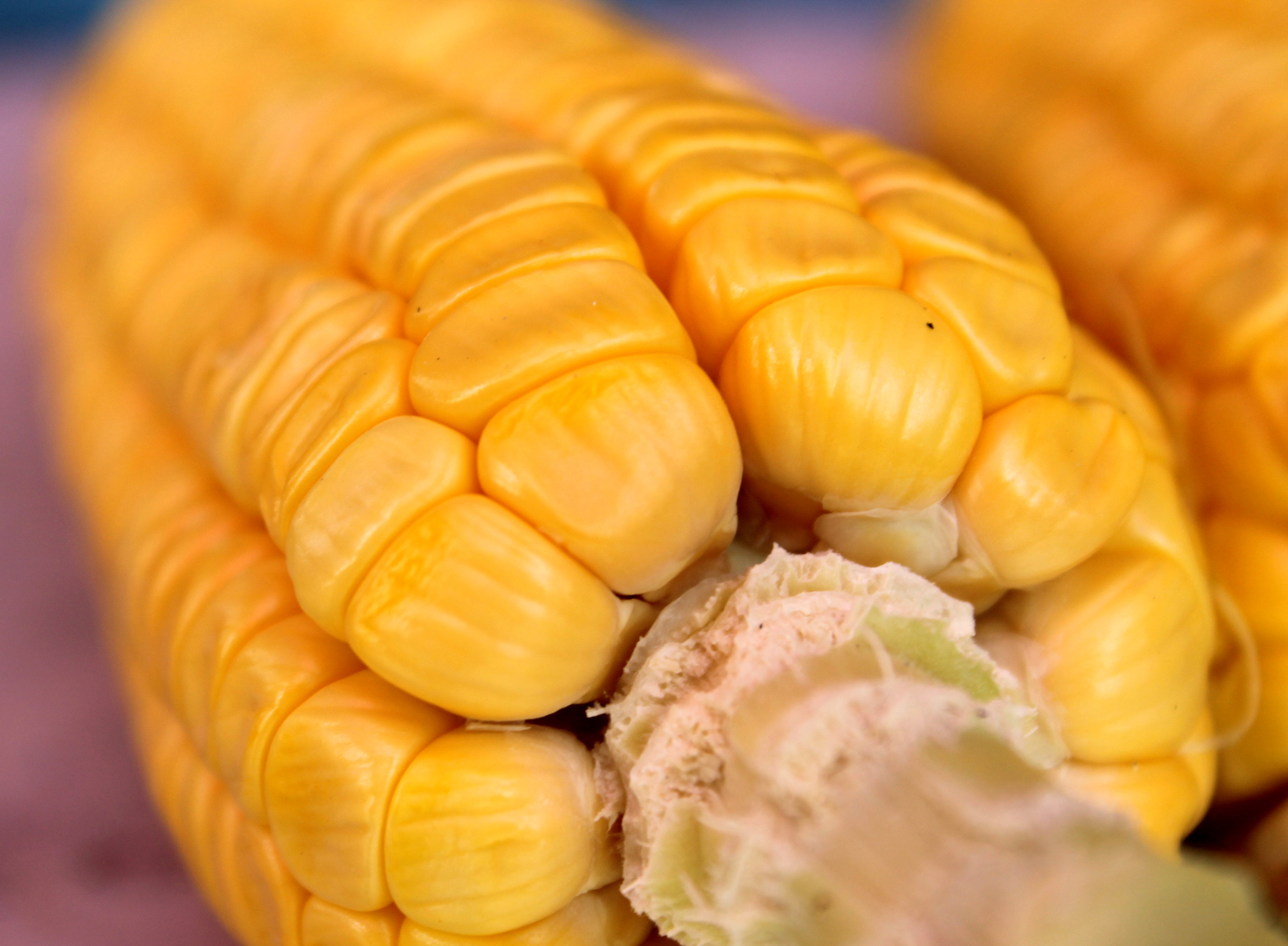 Corn1